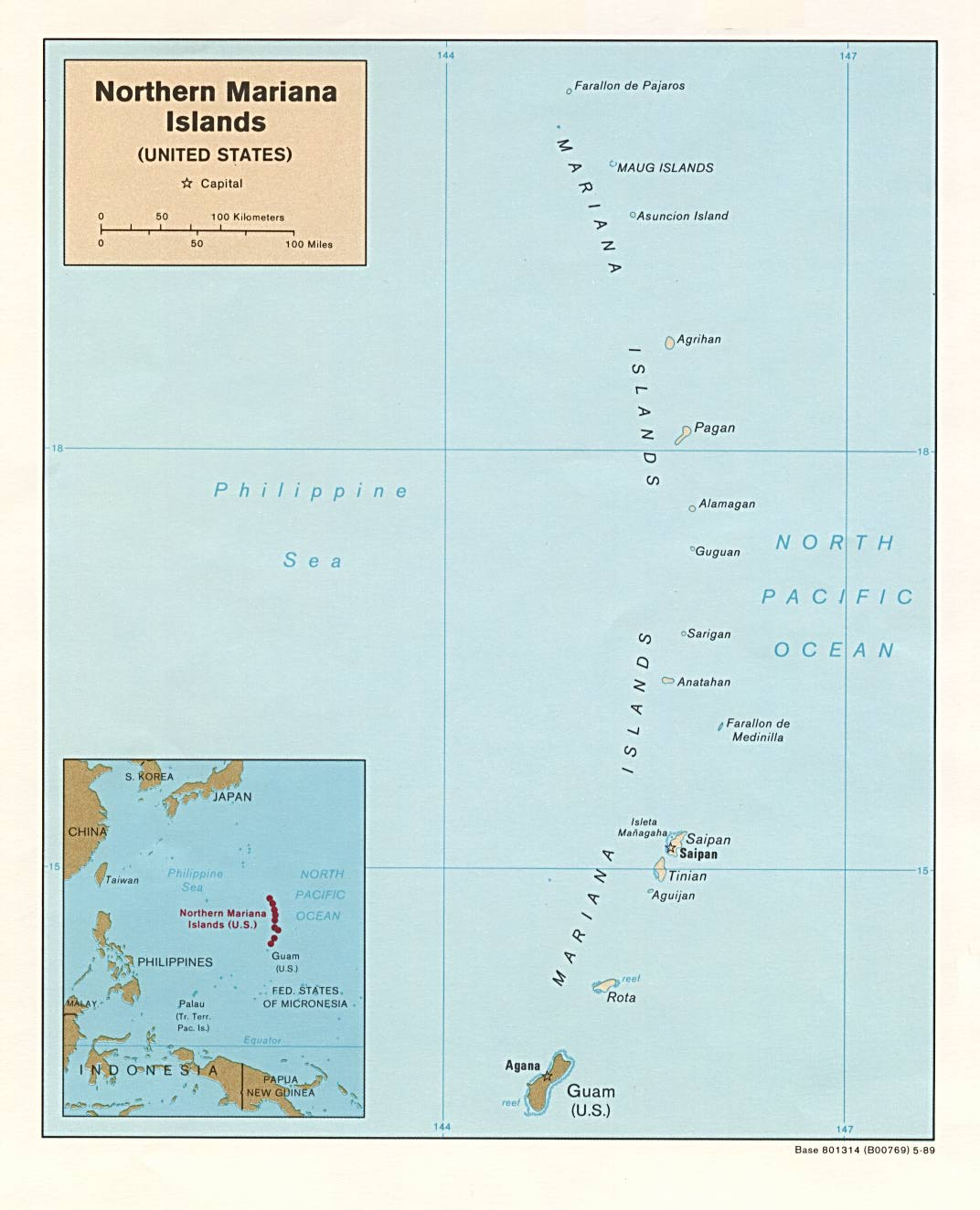 Northern Mariana Islands map